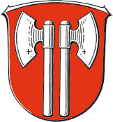 Coat of Arms of Antrifttal